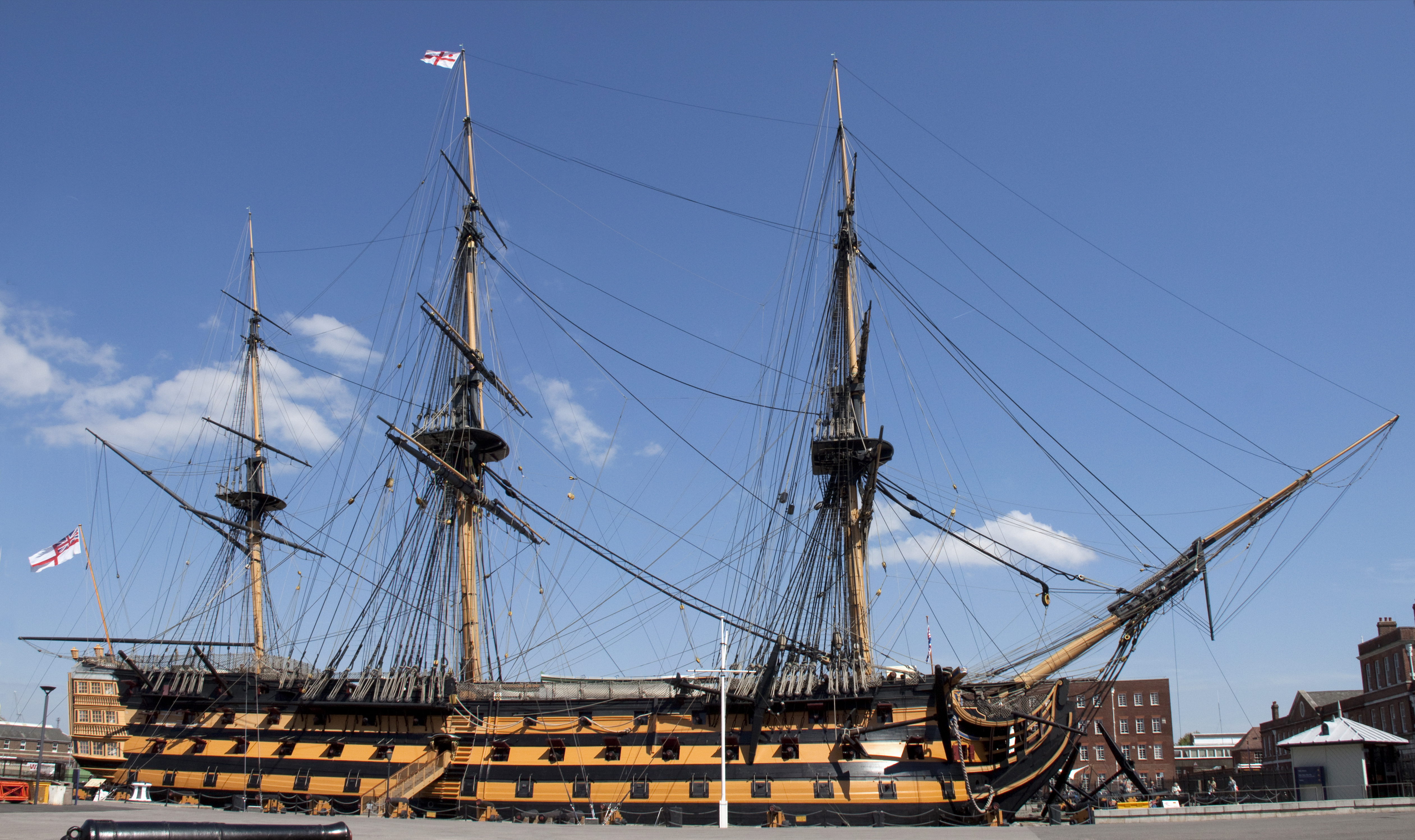 Victory